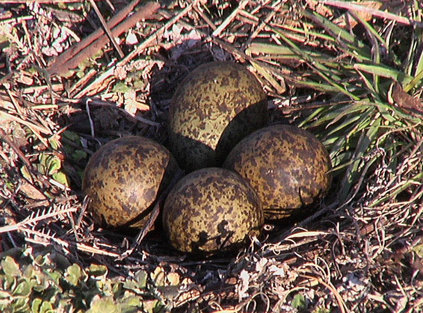 Eggs of Masked Lapwing (Vanellus miles) taken in Canberra, ACT, Australia, in August 2002.